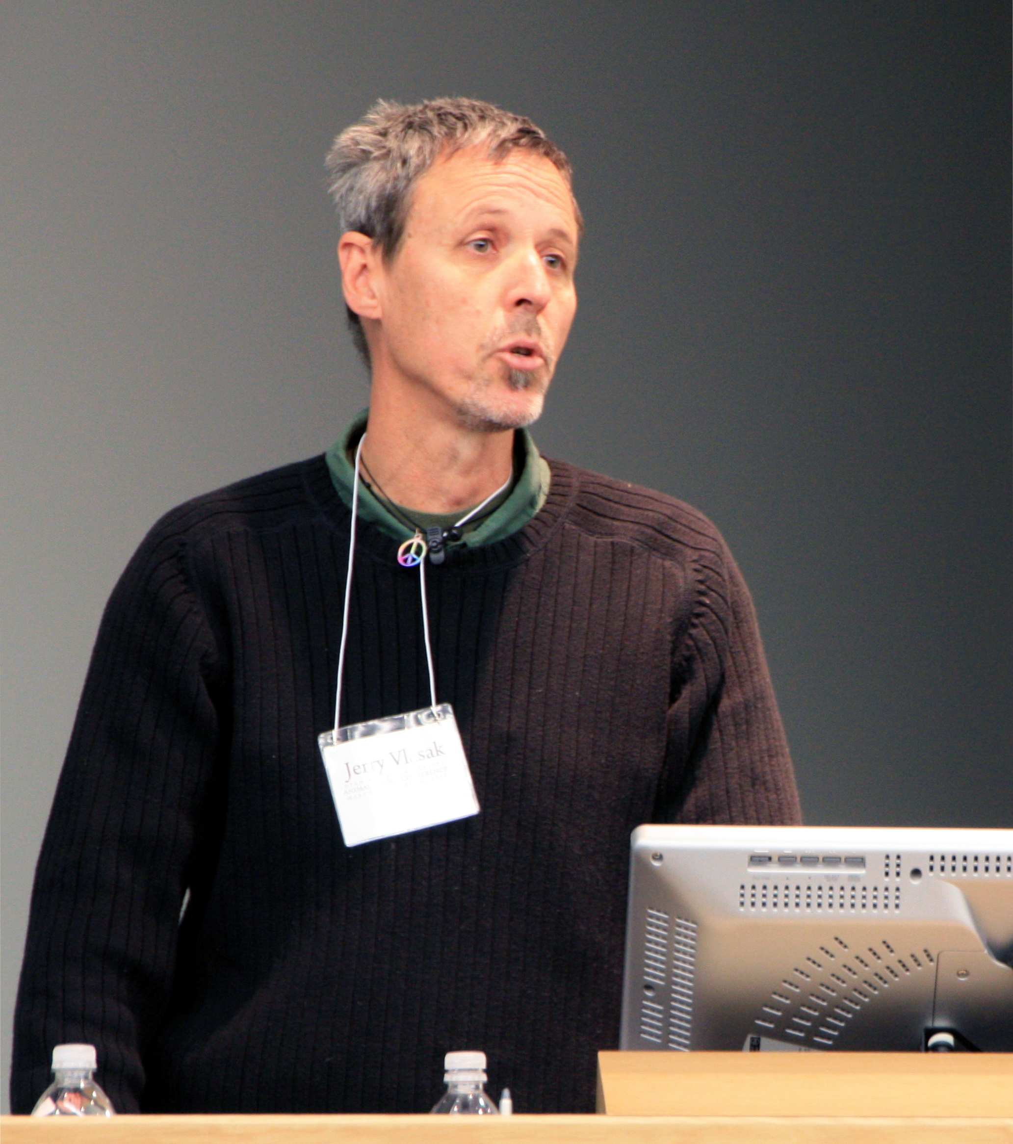 Jerry Vlasak Cropped from original Camera: Canon EOS 450D License on Flickr (2011-01-26): CC-BY-SA-2.0 Flickr tags: Jerry Vlasak, direct action, animal liberation front, ALF